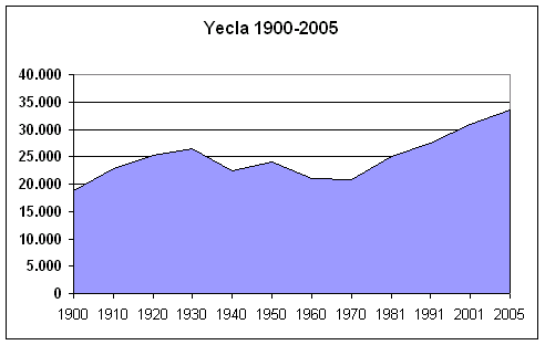 Yecla's population, Murcia, Spain, (1900-2005). Own work, given to PD. Source: Instituto Nacional de Estadística.